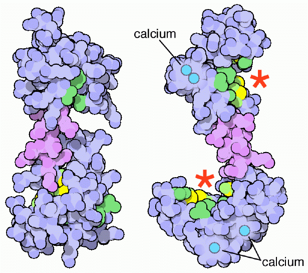 An image comparing the binding sites of calmodulin when it does not have calcium bound and when it does have calcium bound.